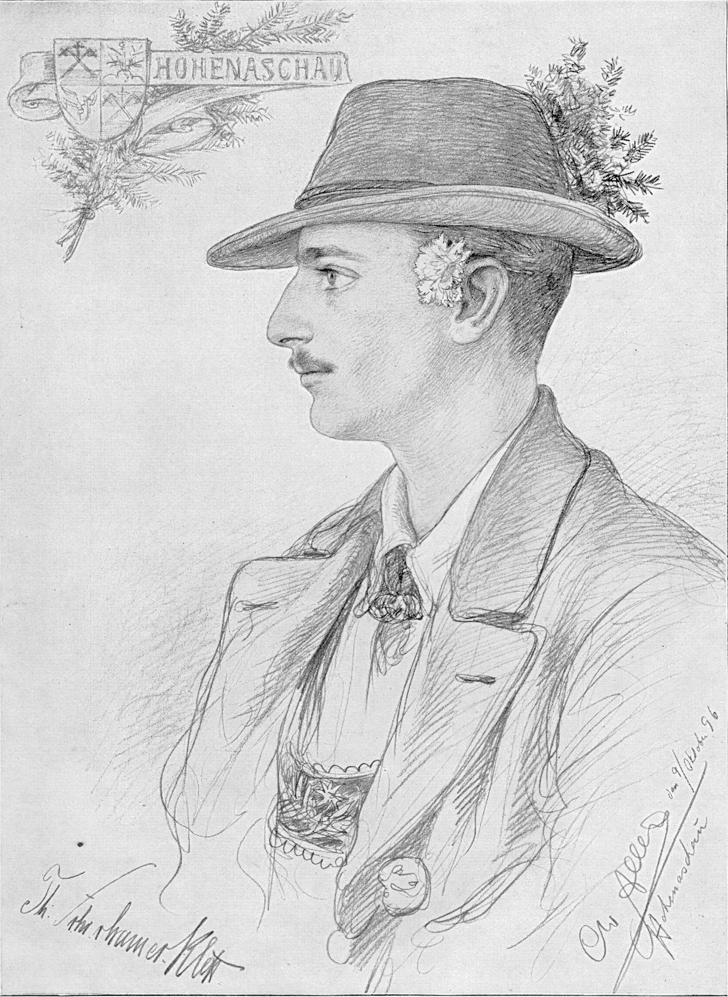 Portrait of Theodor von Cramer-Klett junior